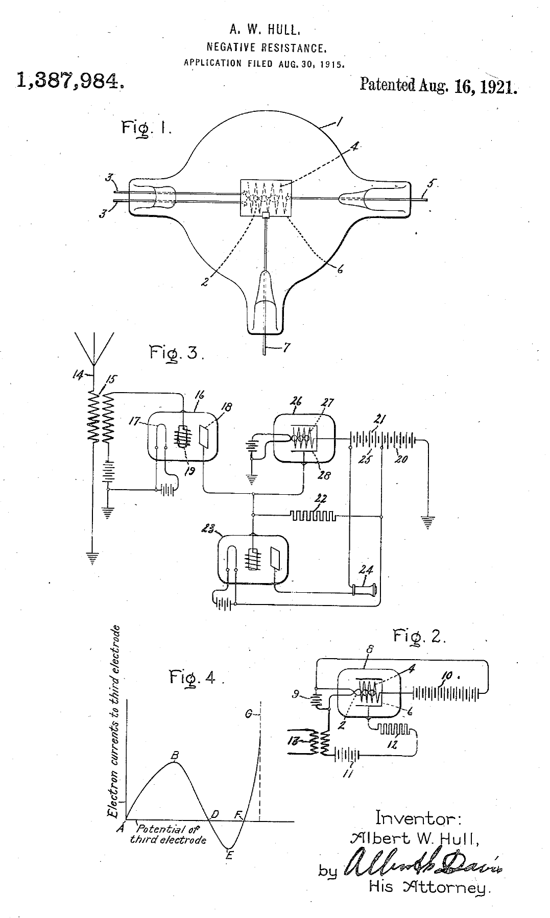 Dynatron Patent page Nr 1. from Albert W. Hull (1921)